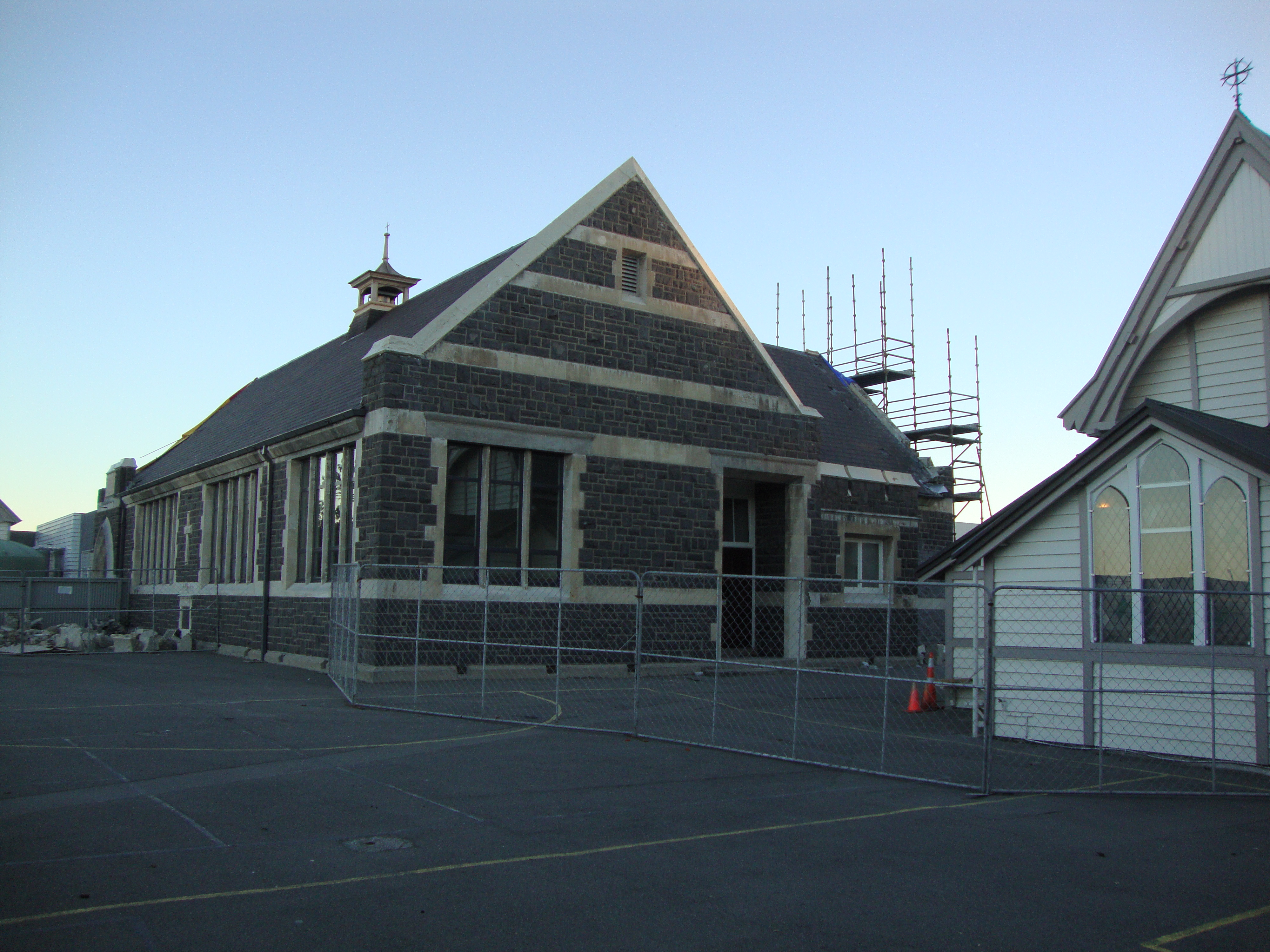 The Stone School Building of St Michael's Church School, designed by Cecil Wood.